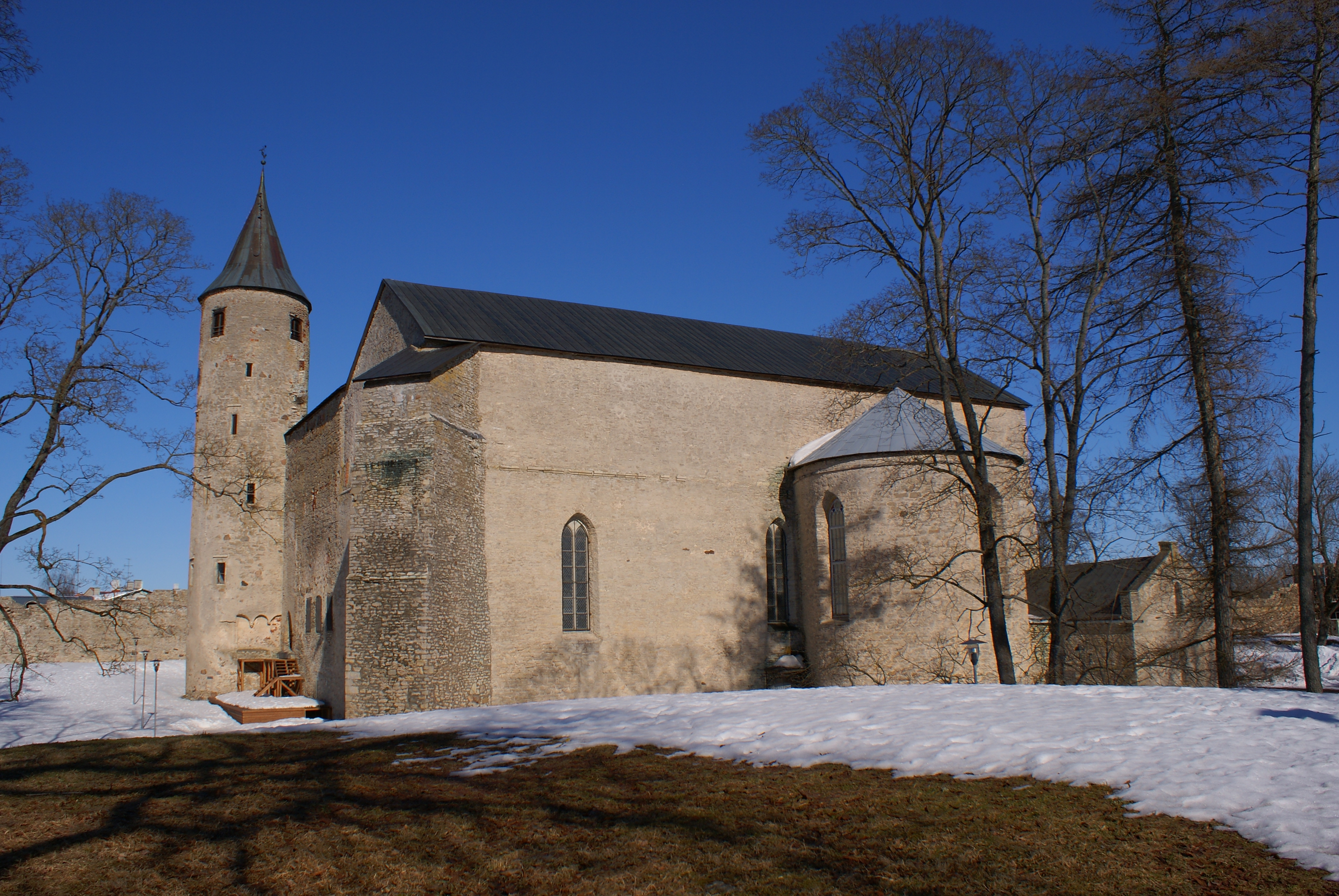 Haapsalu Cathedral